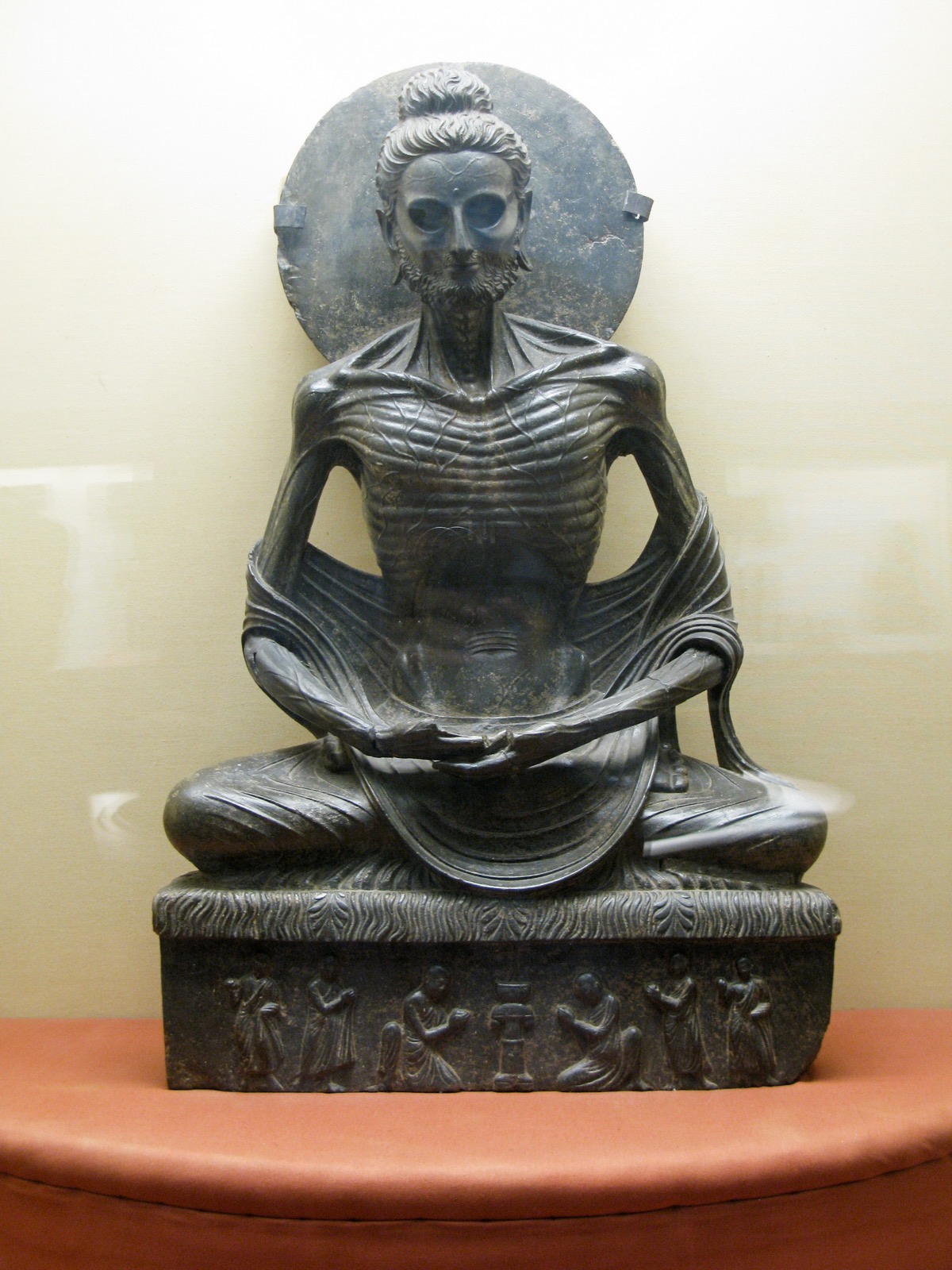 Lahore Museum This is a photo of a monument in Pakistan identified as the PB-94